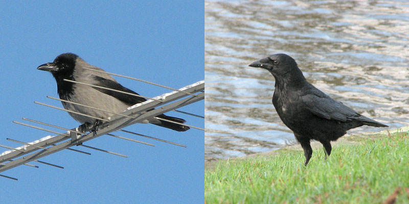 Crow species: Corvus cornix (left, photo from Helsinki, Finland) and Corvus corone (right, photo from Brussels, Belgium).